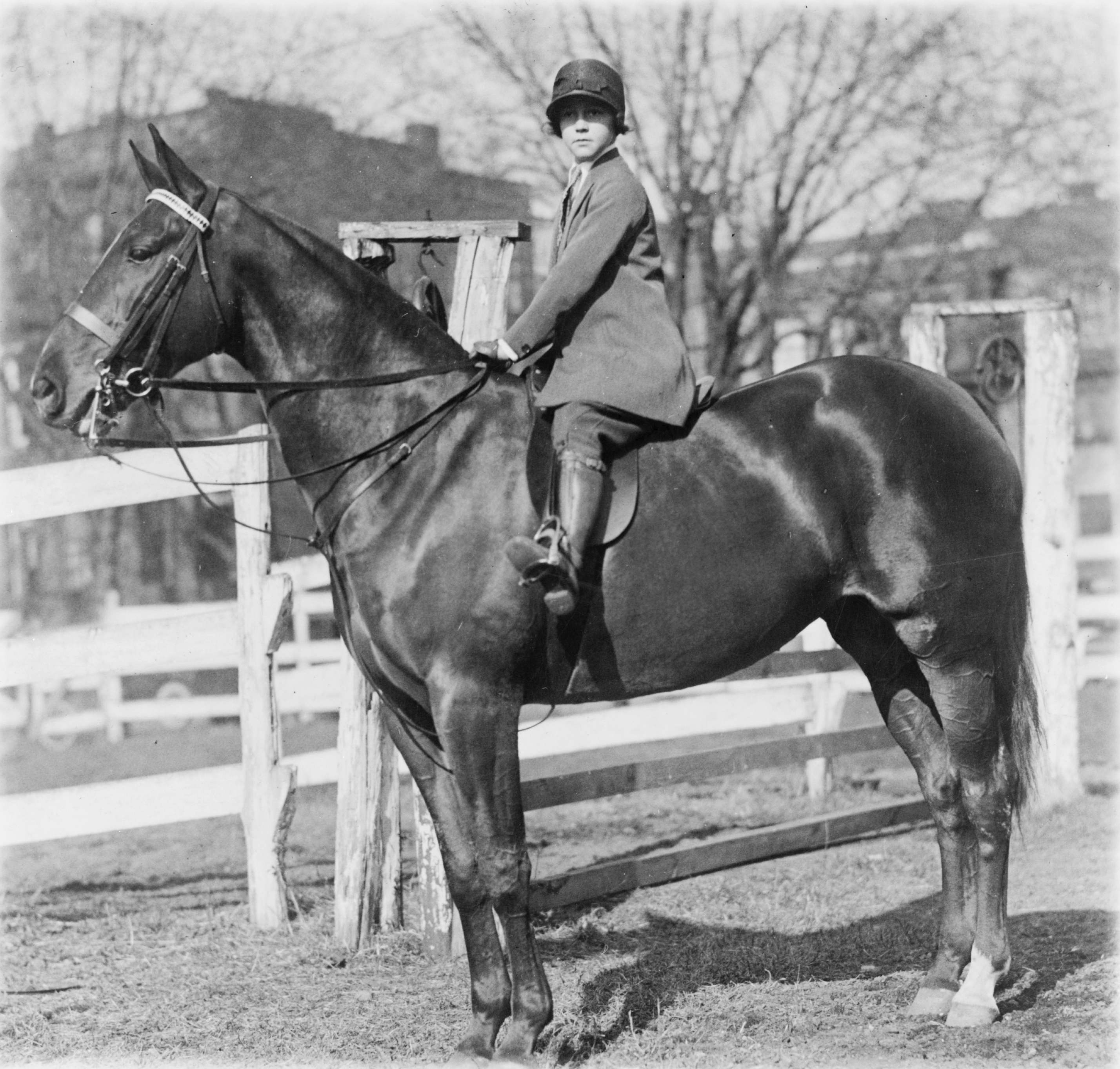 Katharine Meyer, daughter of Eugene Meyer, riding a horse at the Riding and Hunt Club. Katharine would grow up the become the publisher of The Washington Post.